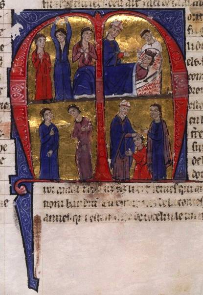 William of Tyre's Historia and Continuation, 13C manuscript from Acre. Bibliotheque Nationale Française, Richelieu Manuscrits Français 2628 Copyright-free, from Bibliotheque Nationale Française site Gallica (